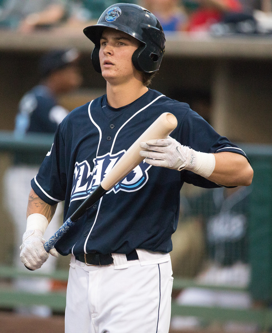 Mickey Moniak at bat for the Lakewood Blue Claws in 2017